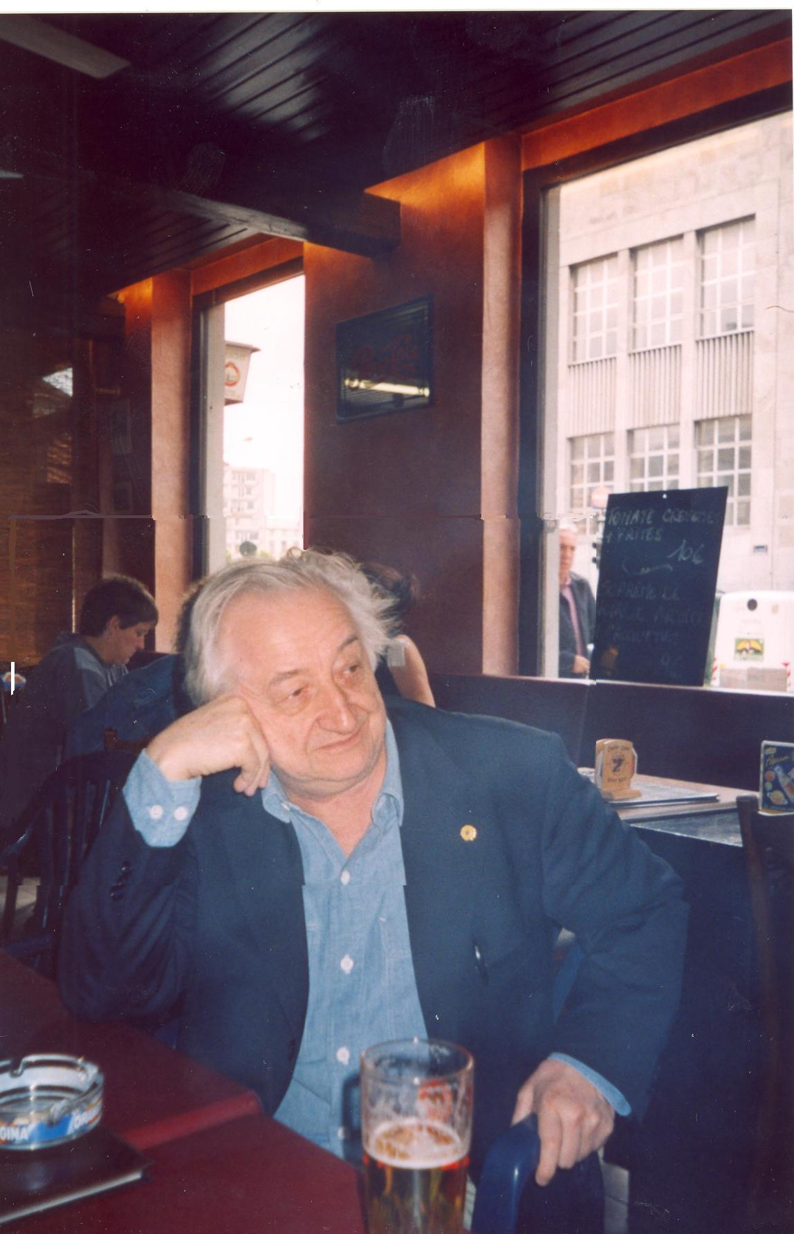 Dumitru Tsepeneag